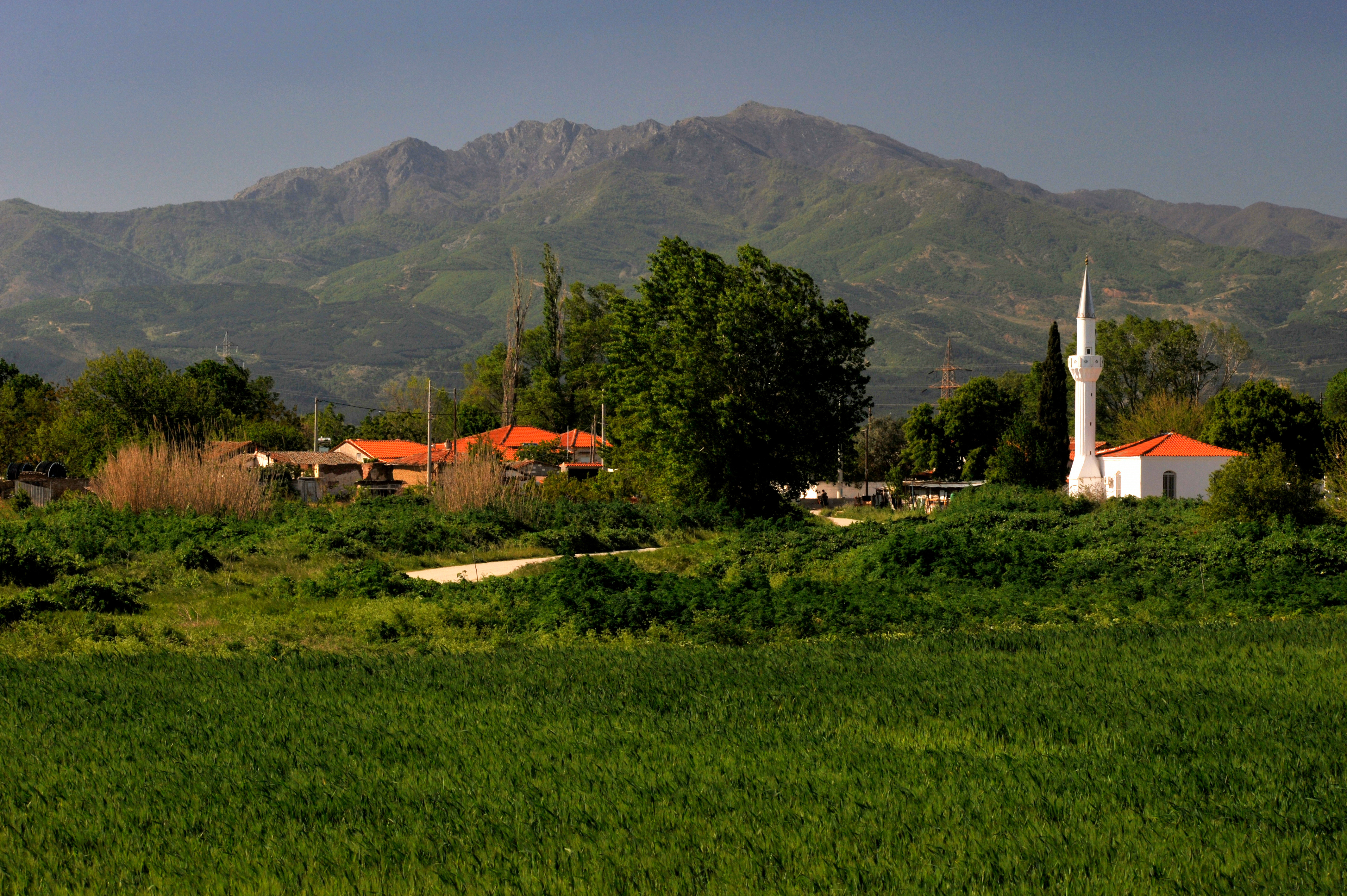 Itea village (Turkish: Has Köy) , Komotini, Rhodope, Thrace, Greece.